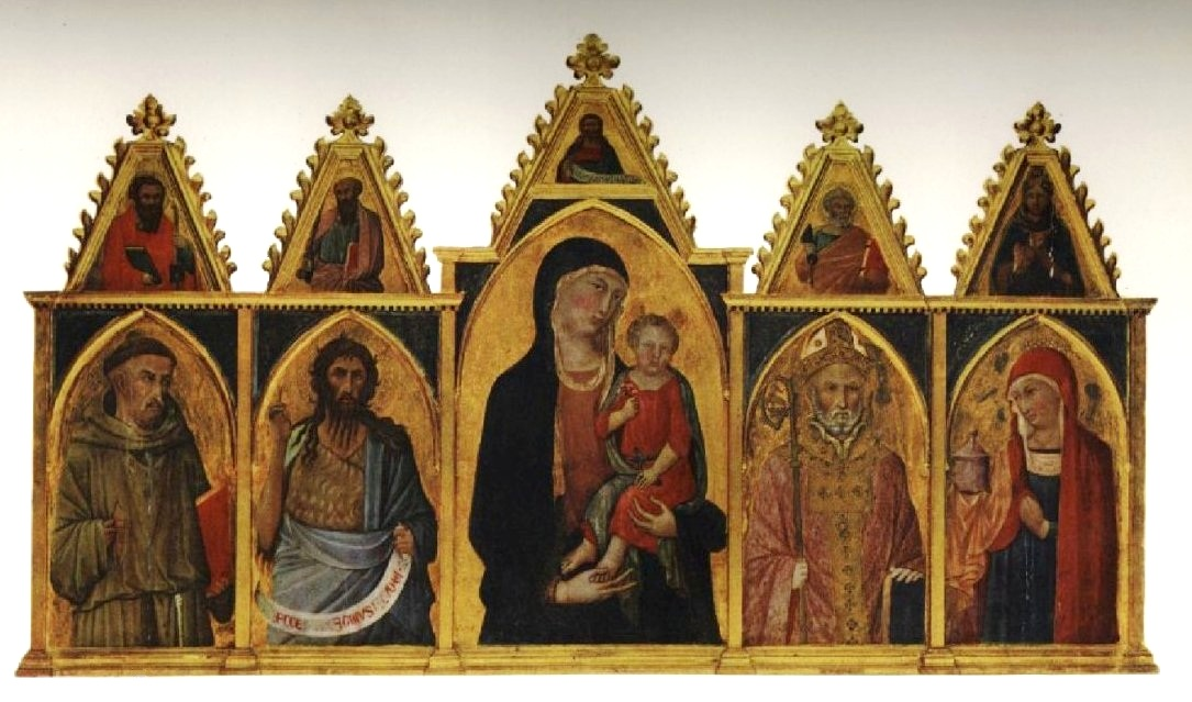 Bartolomeo_Bulgarini._The_Berenson_Polyptych._1340s._Villa_I_Tatti._Florence.